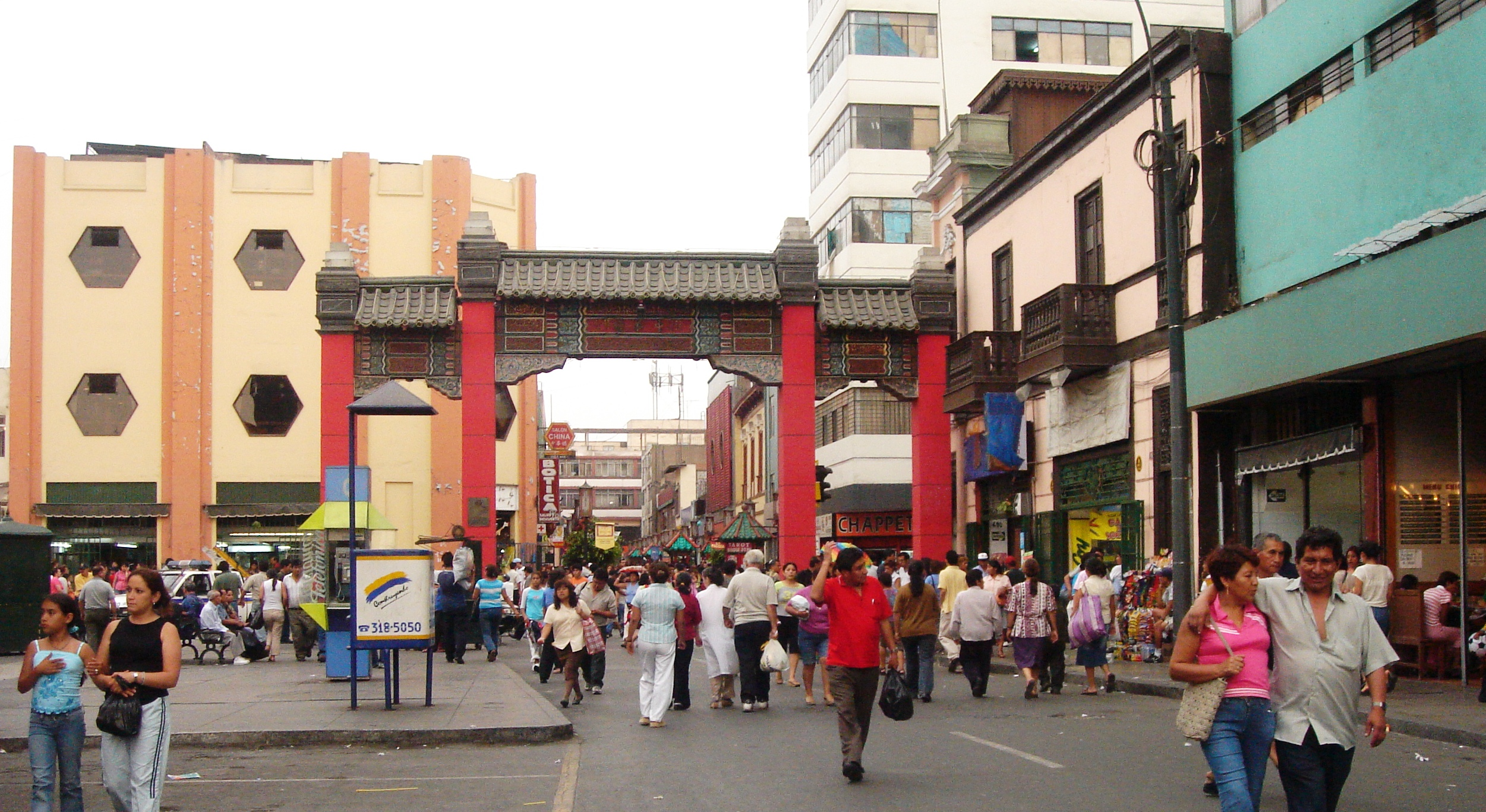 Year of the Dog - Chinatown, Lima-Peru.